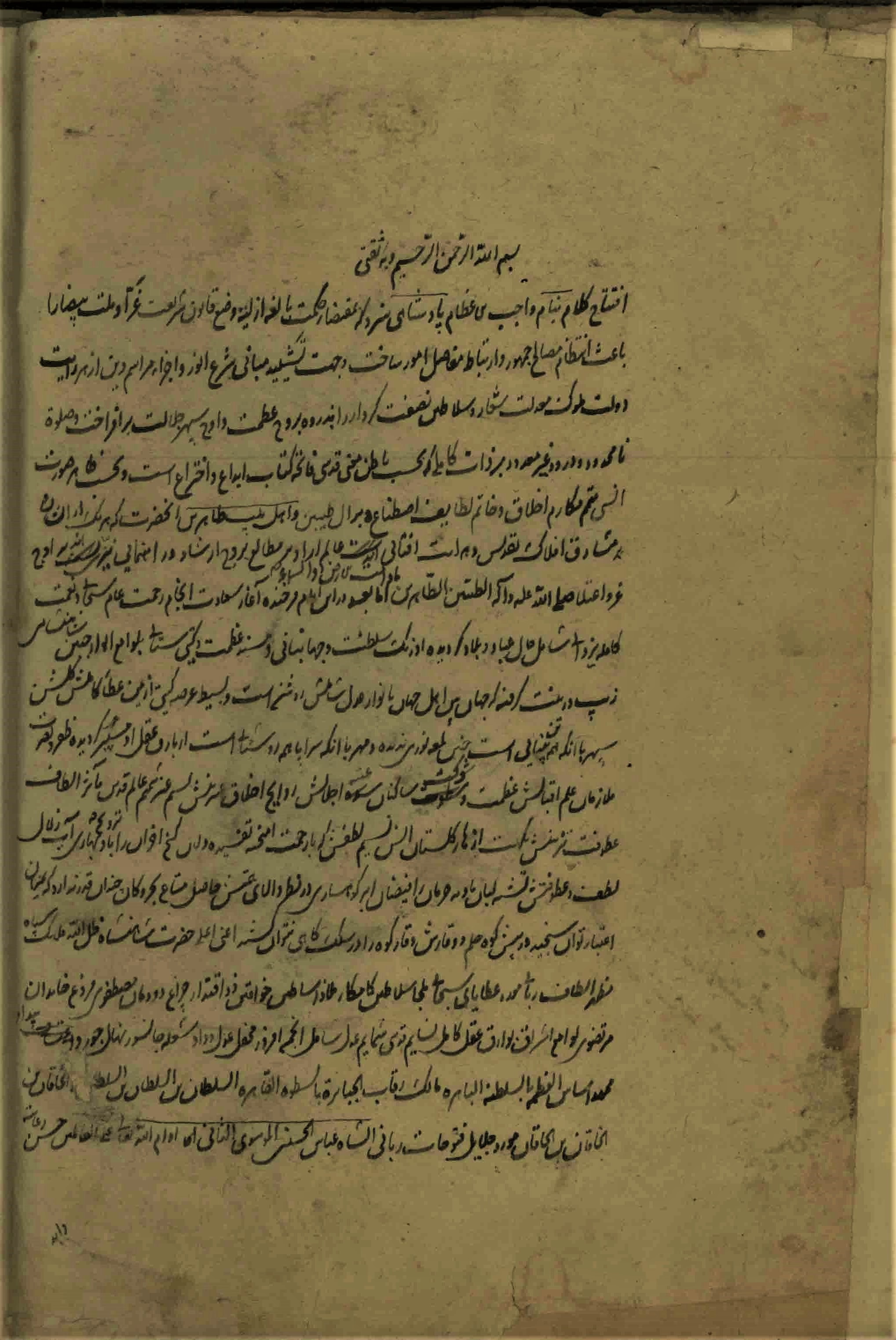 Islamic Manuscript- Rozat al-Anwar Abbasi (1663 AD-1073 A.H.) Author: Mohaghegh Sabzevari – Muhammad Baqir al-Sabzevari (1608-1679 / 1017-1090 A.H.) commissioned by Abbas II of Persia Islamic Consultative Assembly Library, Museum and Documentation Centre Reference Number: 4647.2 Published: 1663 AD-1073 A.H.